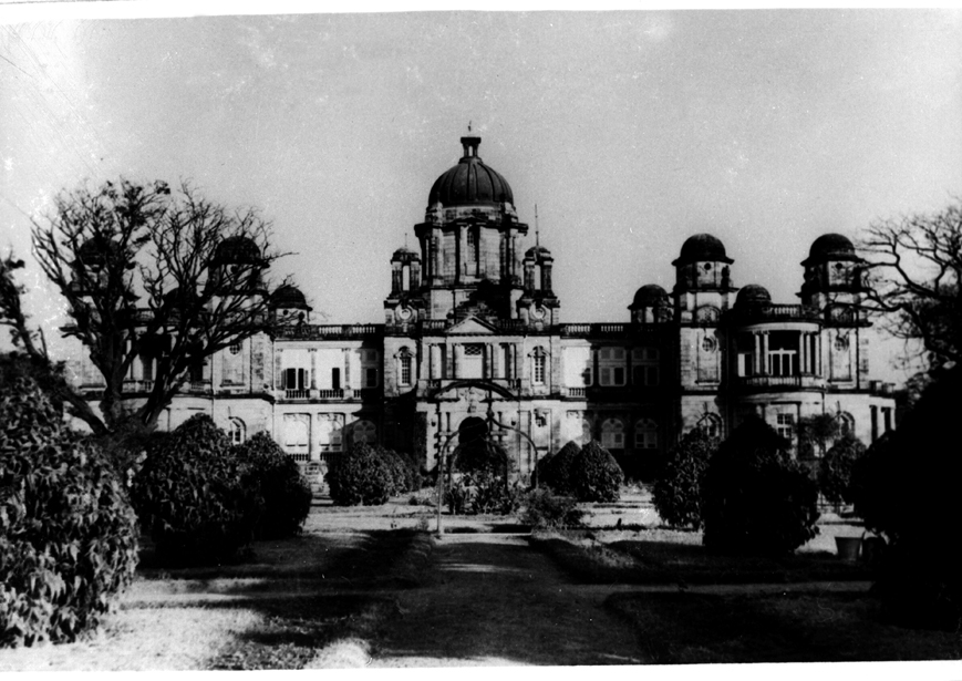 DPIO Vyas/1951,A38b“CHATTAR MANZIL” in Lucknow India where the CENTRAL DRUG RESEARCH INSTITUTE IS SITUATED. Photo Number:-24810